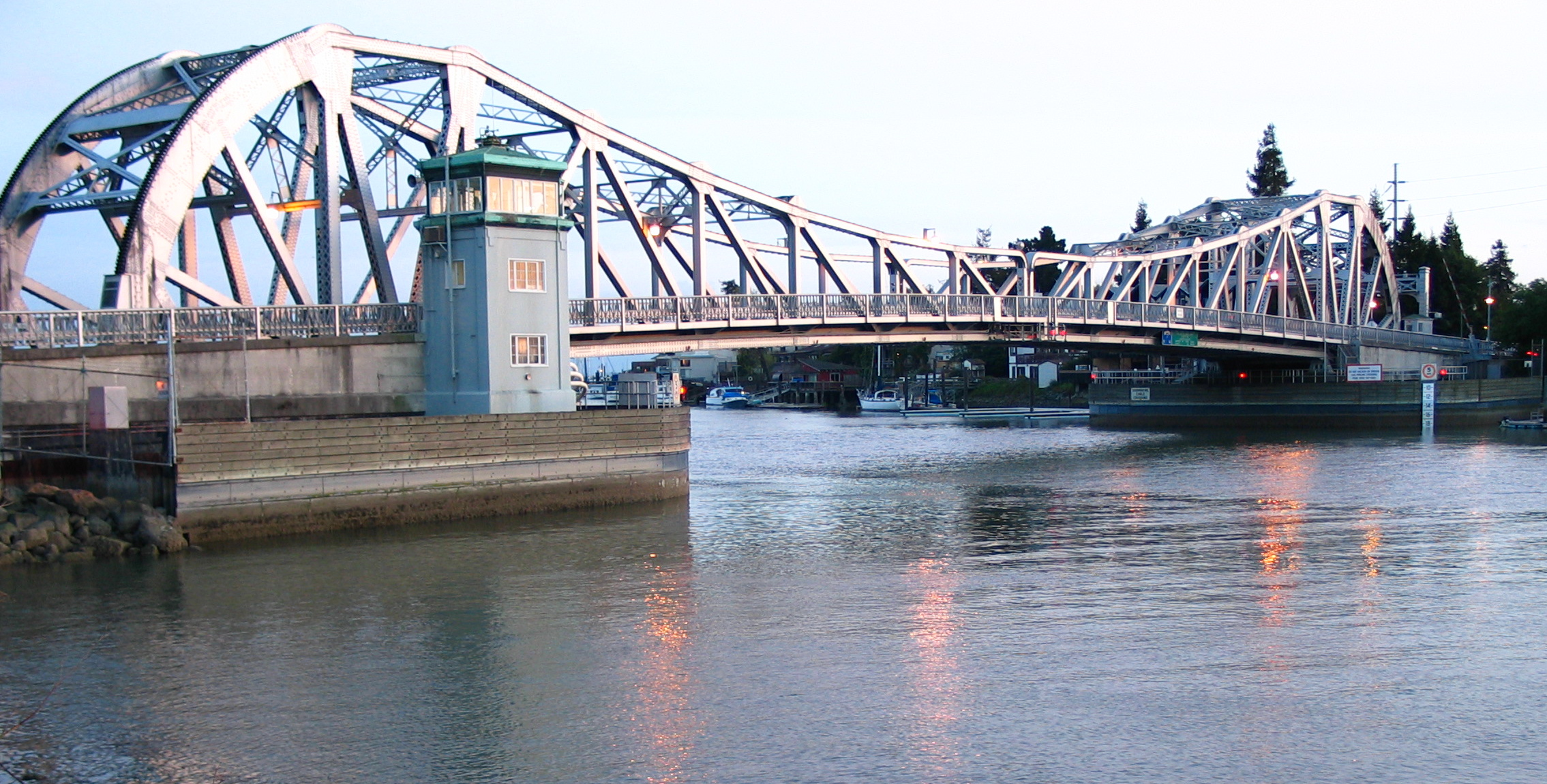 The High Street Bridge, a 1939 double-leaf bascule bridge connecting the cities of Oakland and Alameda, California, viewed from the north